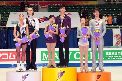 The pairs podium at the 2010-2011 Junior Grand Prix of Figure Skating Final. From left: Ksenia Stolbova / Fedor Klimov (2nd), Narumi Takahashi / Mervin Tran (1st), Yu Xiaoyu / Jin Yang (3rd).